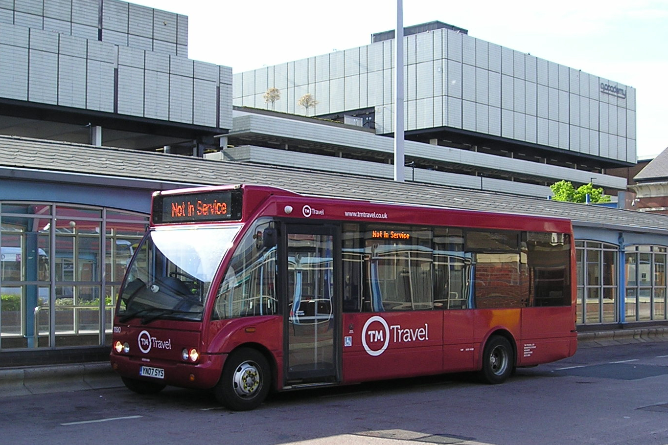 Optare Solo M780 B24F, new in 2007. Photographed in Sheffield bus station, May 2017.